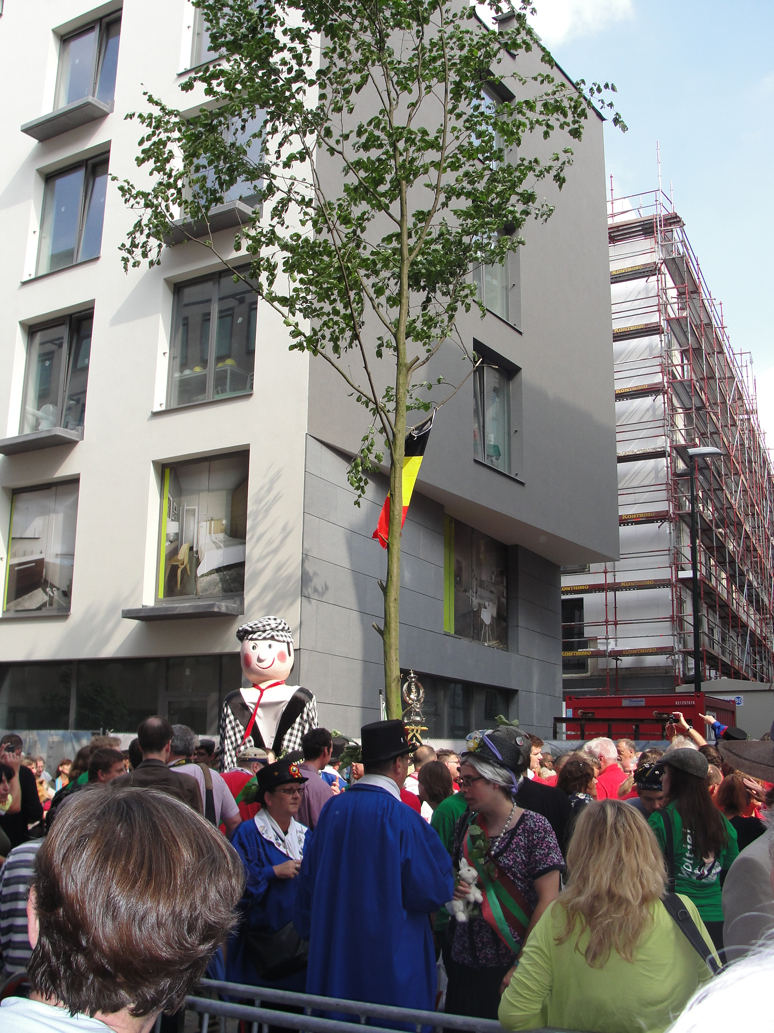 After planting of the Meyboom, August 9th, 2013